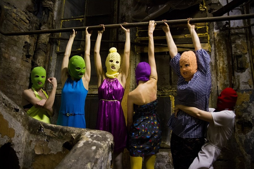 Pussy Riot - Denis Bochkarev.